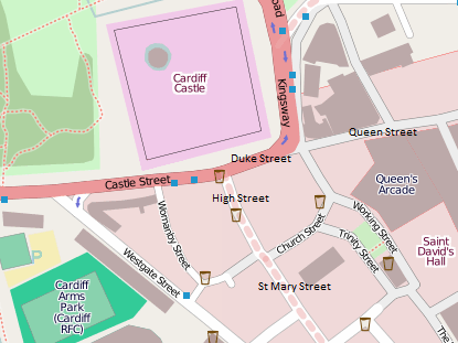 Source: OpenStreetMap